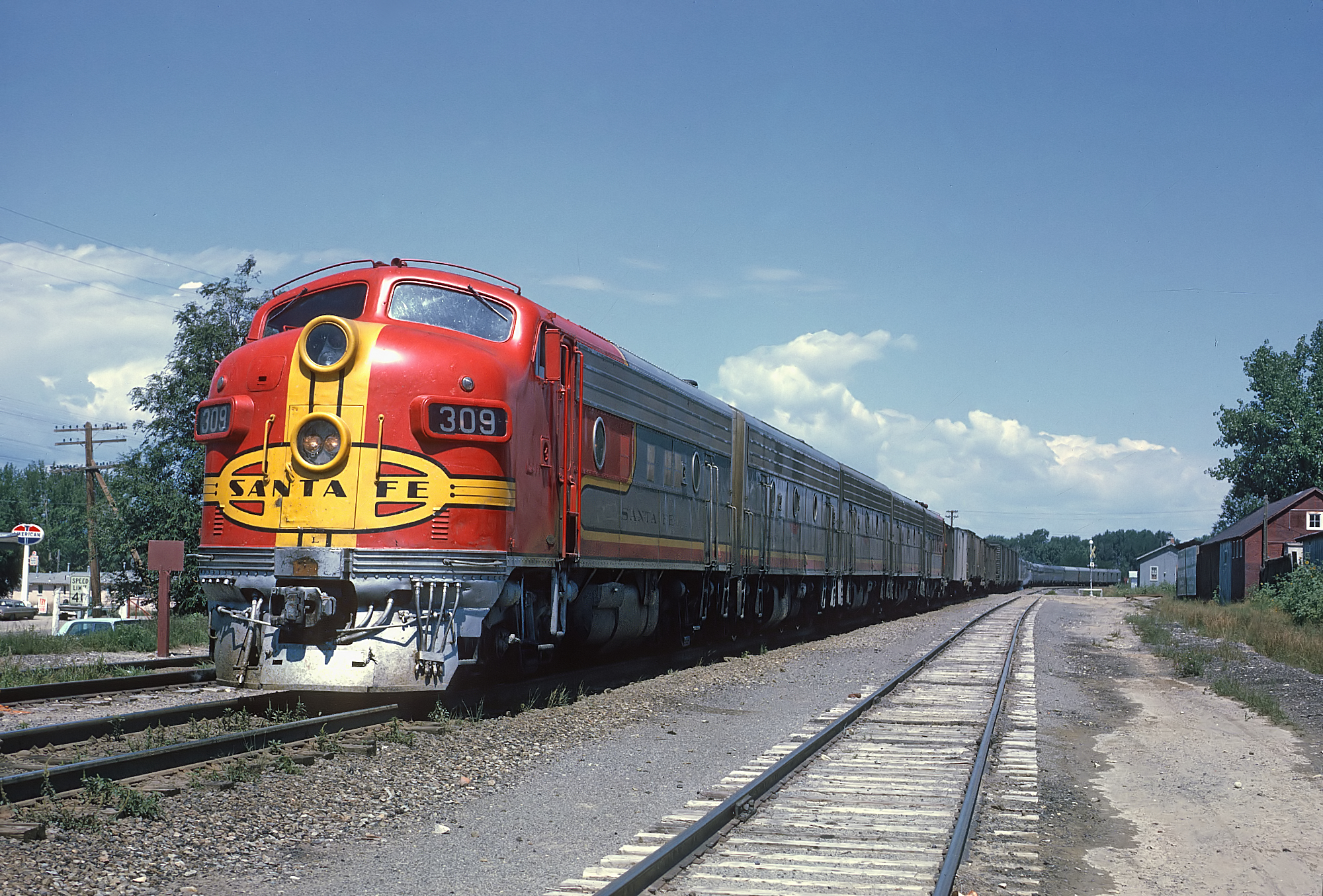 ATSF 309L (F7A) with Train #23, The Grand Canyon, in siding at Springer, NM waiting for York Canyon Coal Unit Train, August 19, 1967. A Roger Puta Photograph.